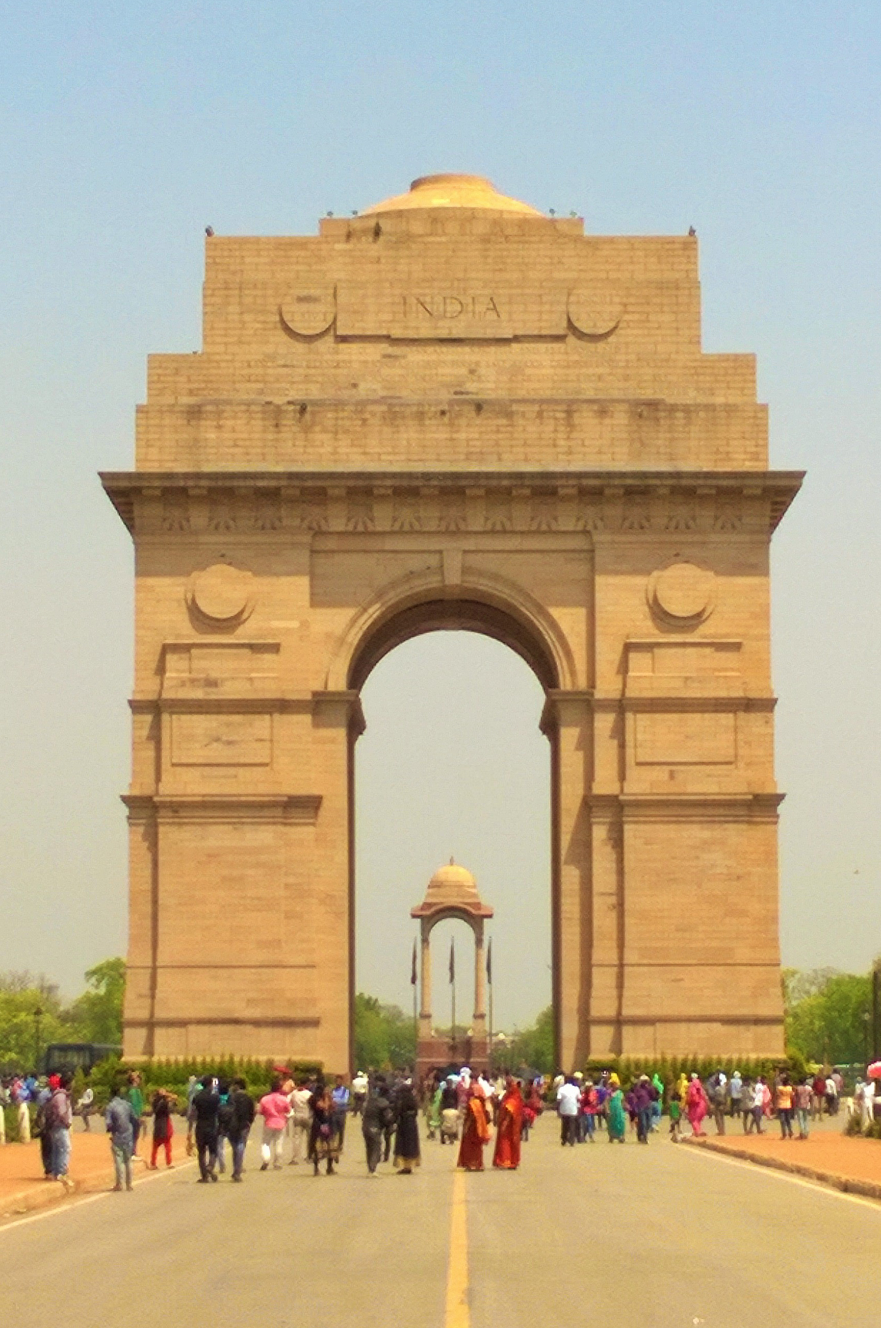 A close up of India gate